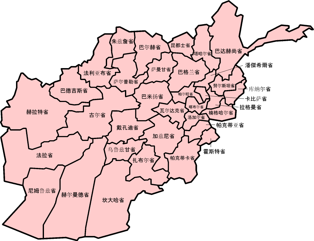 Map of the provinces of Afghanistan in Chinese, using the list from . If there is anything wrong with this, please contact me.